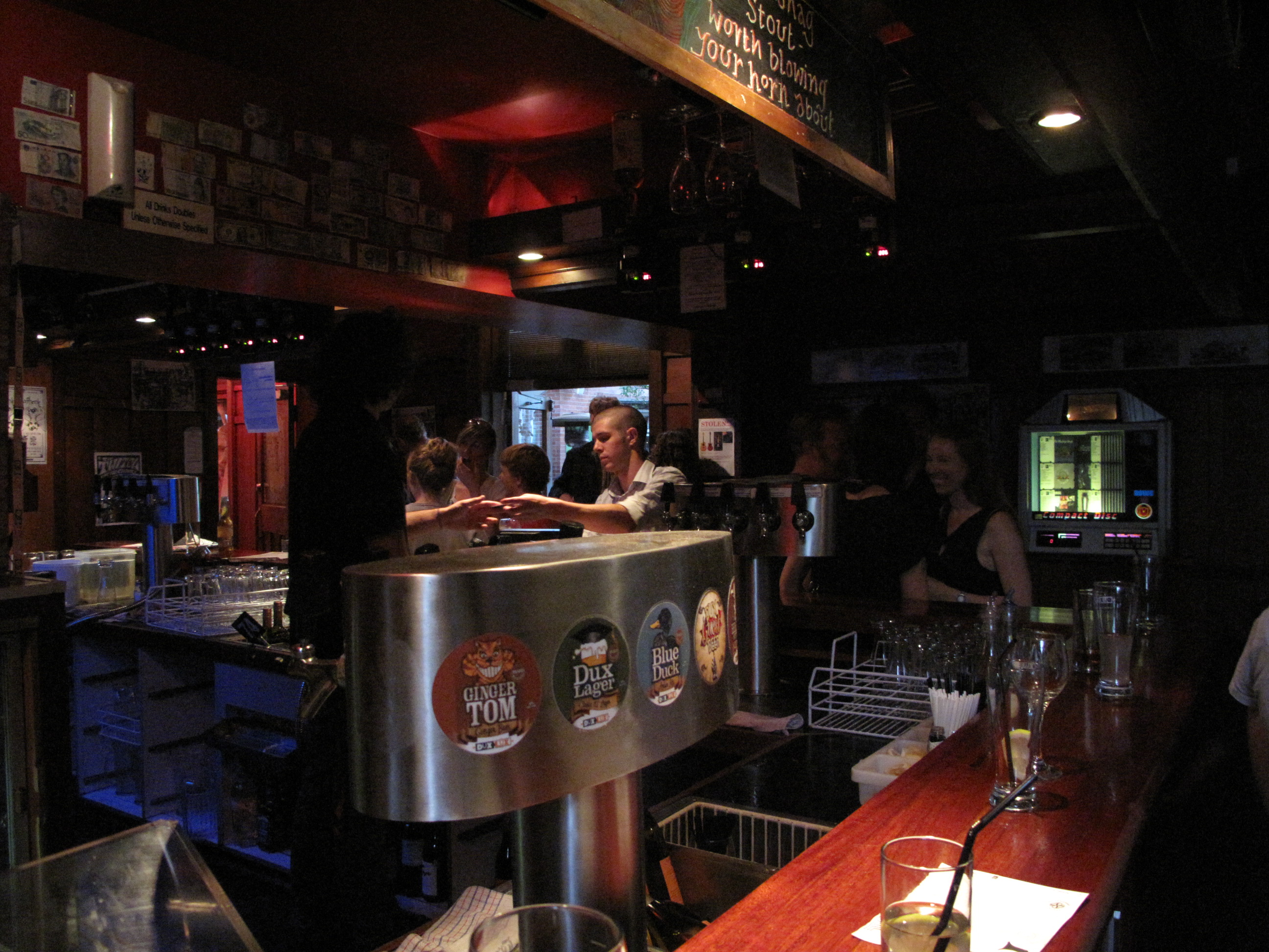 One of the bars in the Dux de Lux.